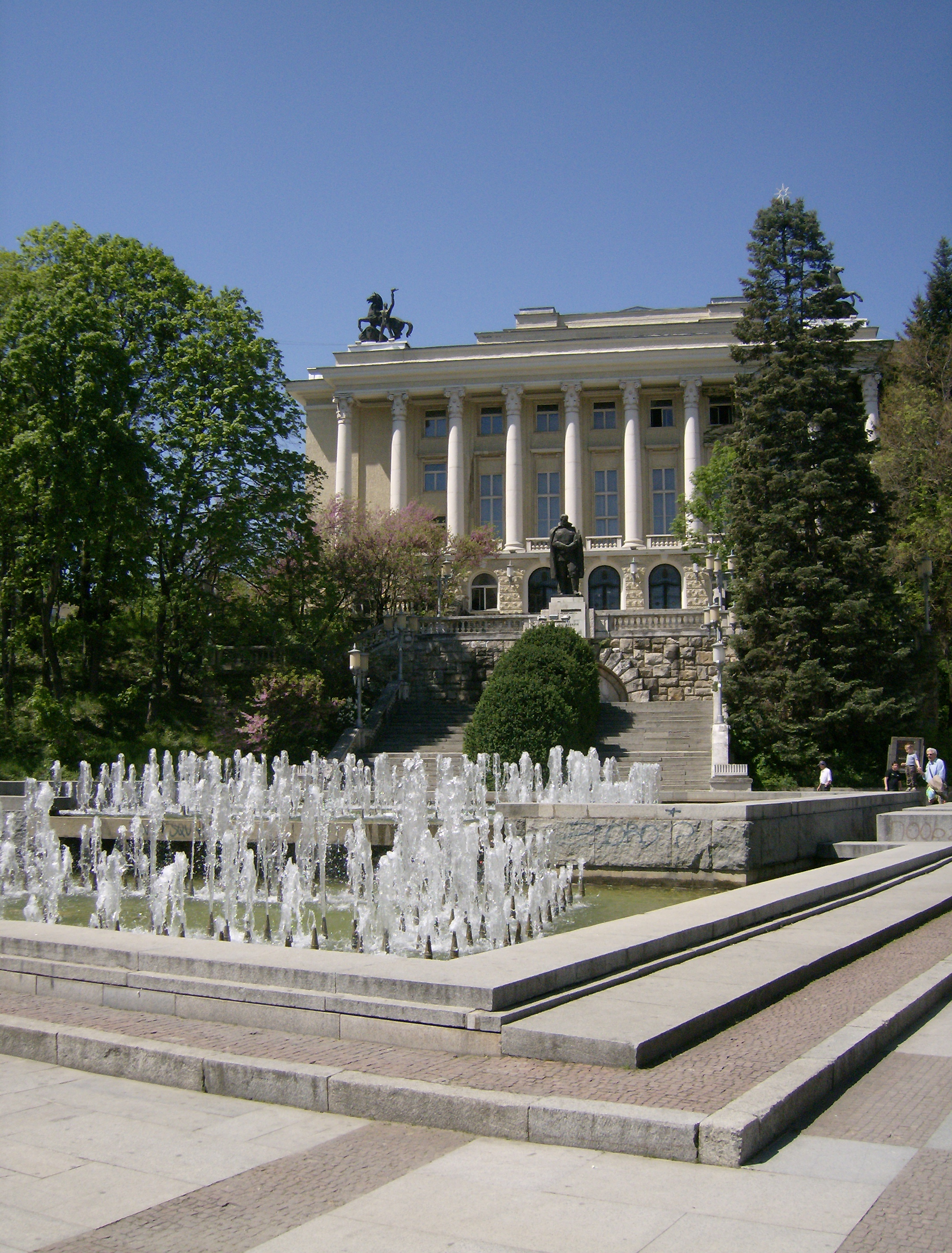 Palace Emanuil Manolov